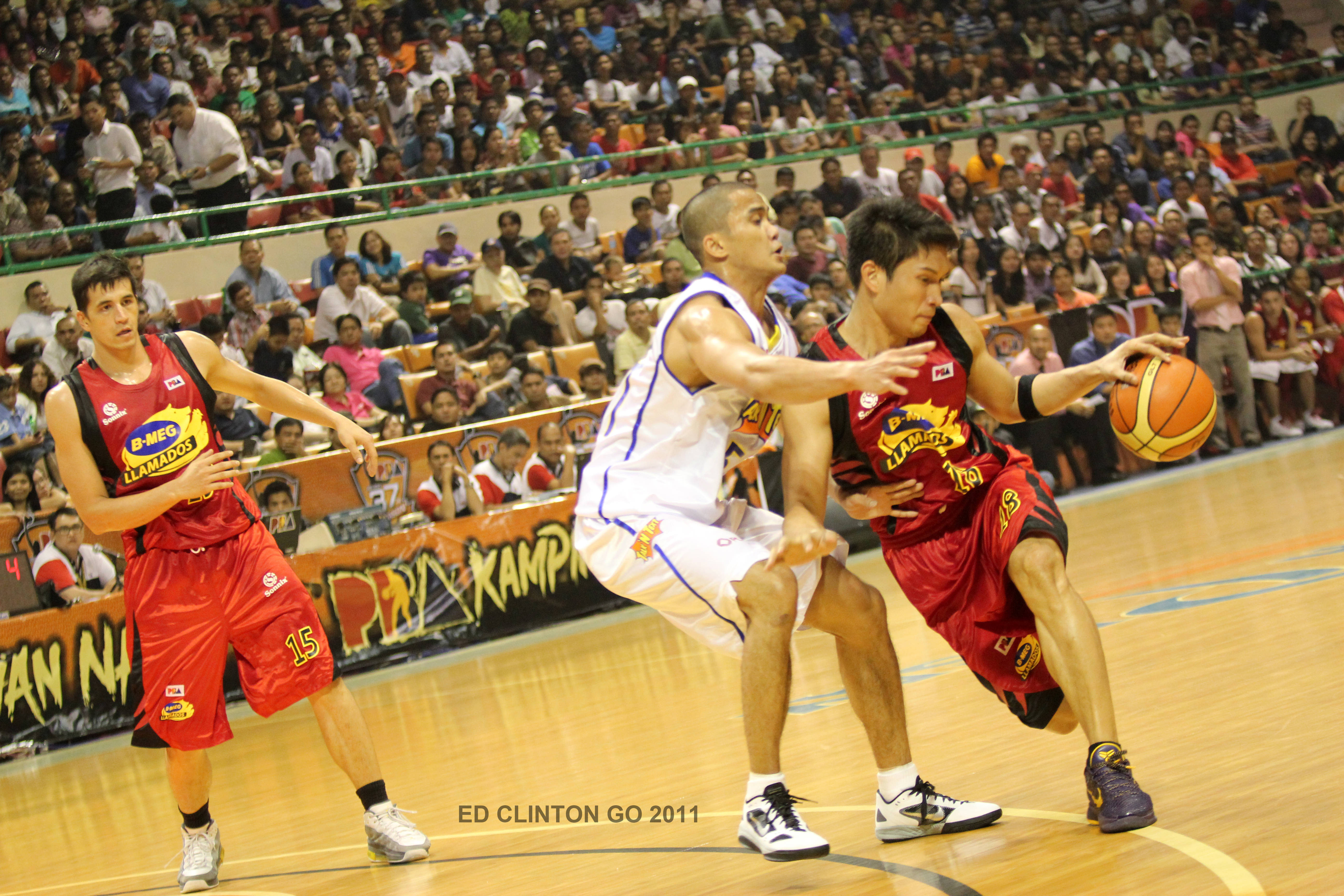 James Yap at the BMEG Llamados game VS Talk N' Text Tropang Texters last October 21, 2011 at Cuneta Astrodome, Pasay City